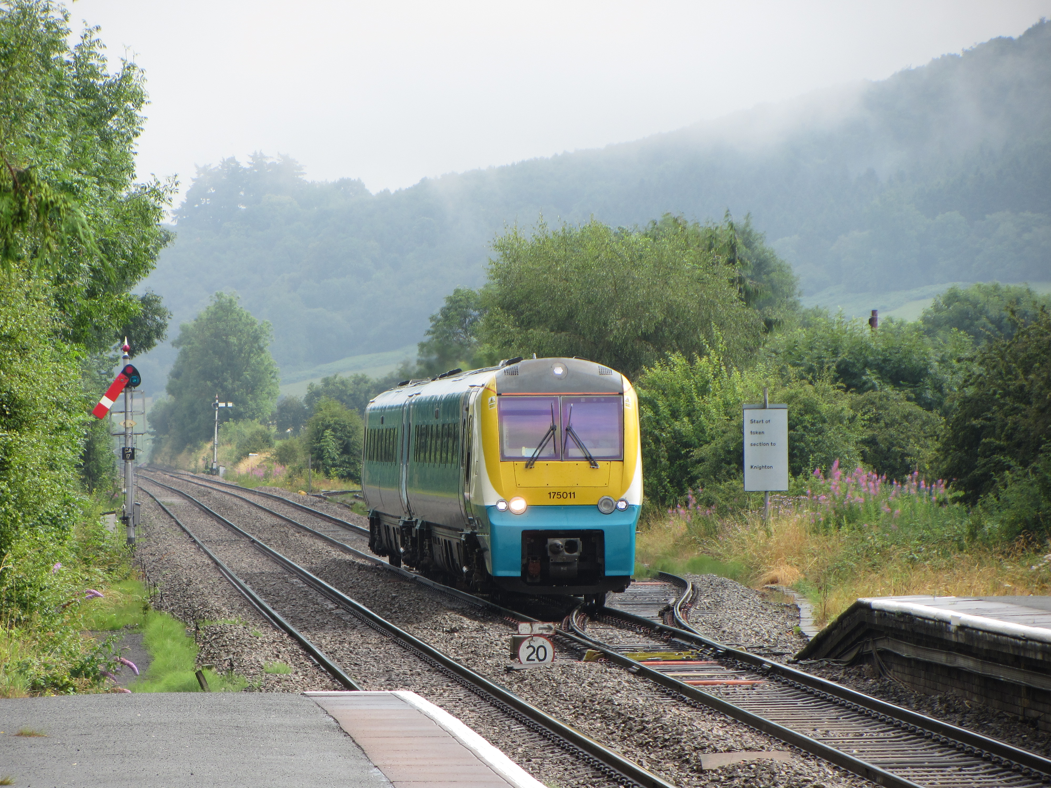 Northbound train approaching Craven Arms